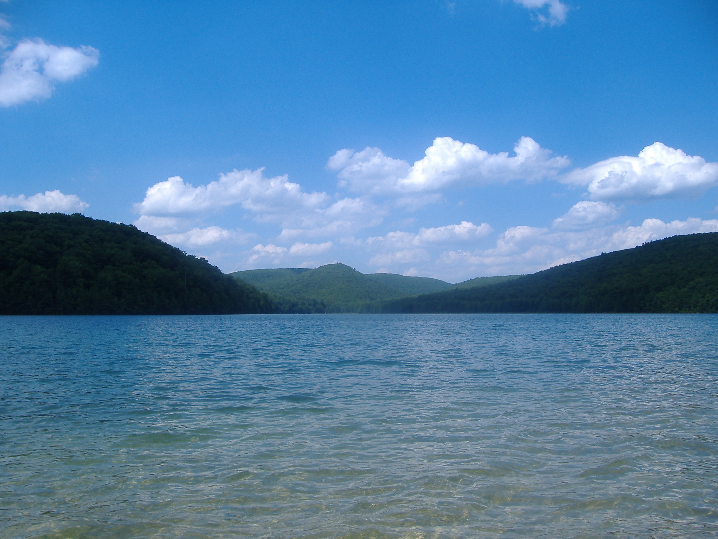 Michaux State Forest in July 2007